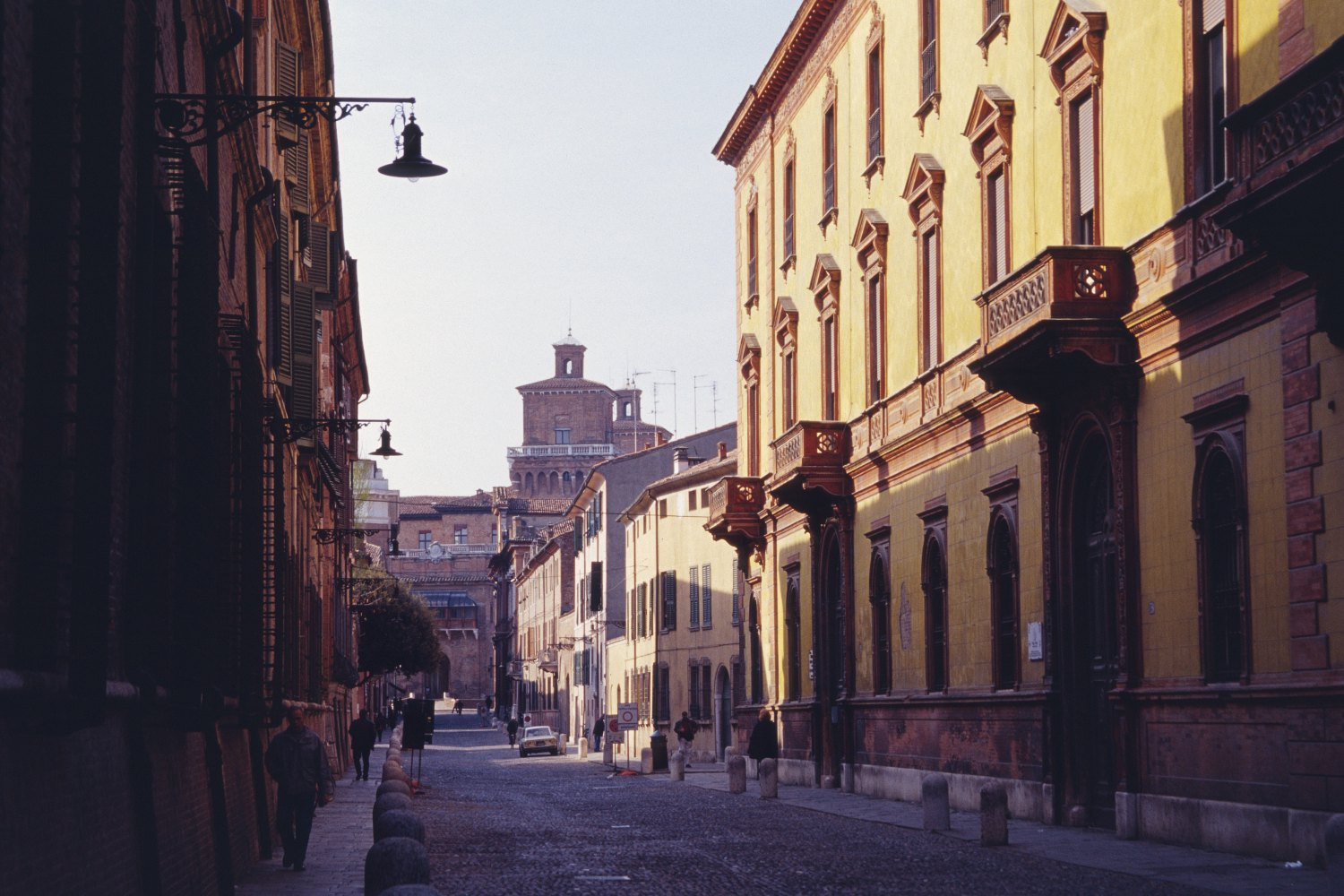 Description: Corso Ercole I d'Este, Street in the Rennaissance town center of Ferrara, Italy own image, taken March 26th, 2002 Photographer: Herbert Ortner, Vienna, Austria